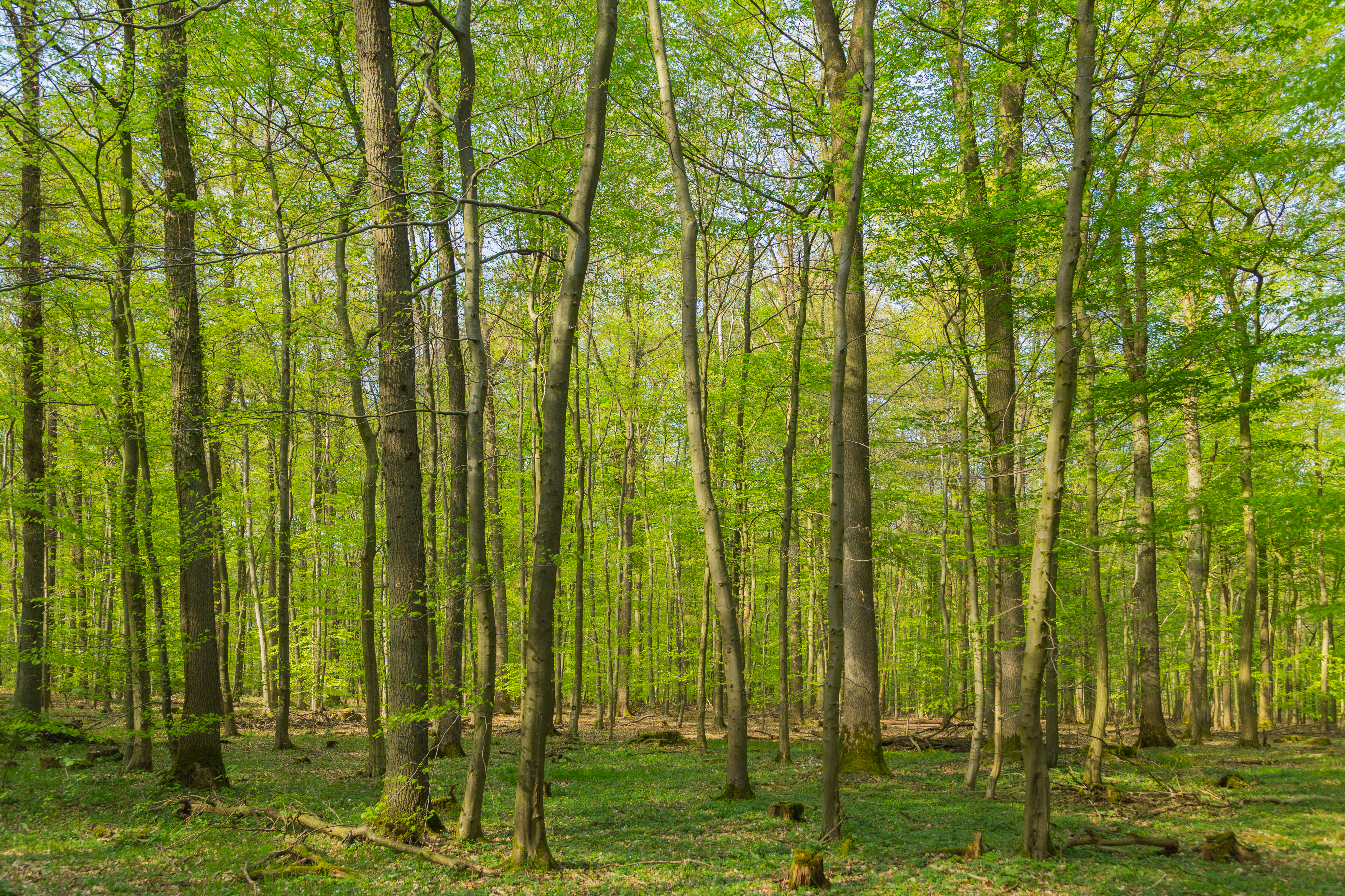 Goshawk's Wood (Habichtswald), a forest and nature reserve near Tecklenburg, Kreis Steinfurt, North Rhine-Westphalia, Germany. This mixed deciduous forest is dominated by beeches (Fagus sylvatica).